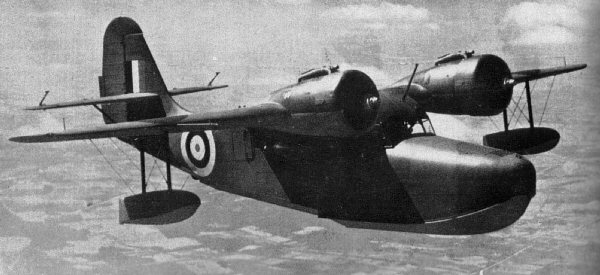 Grumman Goose air-sea rescue amphibian. Air Ministry photograph published in: Aircraft of the Fighting Powers Vol III Ed: H J Cooper, O G Thetford and D A. Russell Harborough Publishing Co, Leicester, England 1942. For photographs taken before June 1, 1957, UK Crown copyright expires 50 years after the creation of the image. See WP:PD#Crown_copyrights. Picture prepared for Wikipedia by Keith Edkins in April 2004.